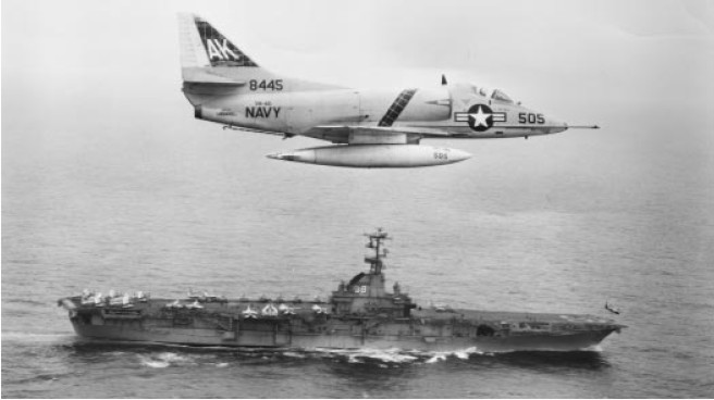 A U.S. Navy Douglas A-4C Skyhawk (BuNo 148445) of Attack Squadron 46 (VA-46) "Clansmen" flying over the aircraft carrier USS Shangri-La (CVA-38). VA-46 was assigned to Attack Carrier Air Wing 10 (CVW-10) aboard the Shangri-La for a deployment to the Mediterranean Sea from 7 February to 28 August 1962.